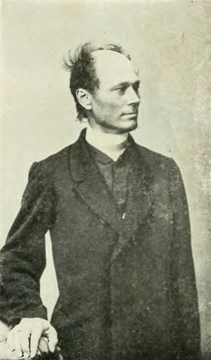 Croatian Bishop Strossmayer in his youth.